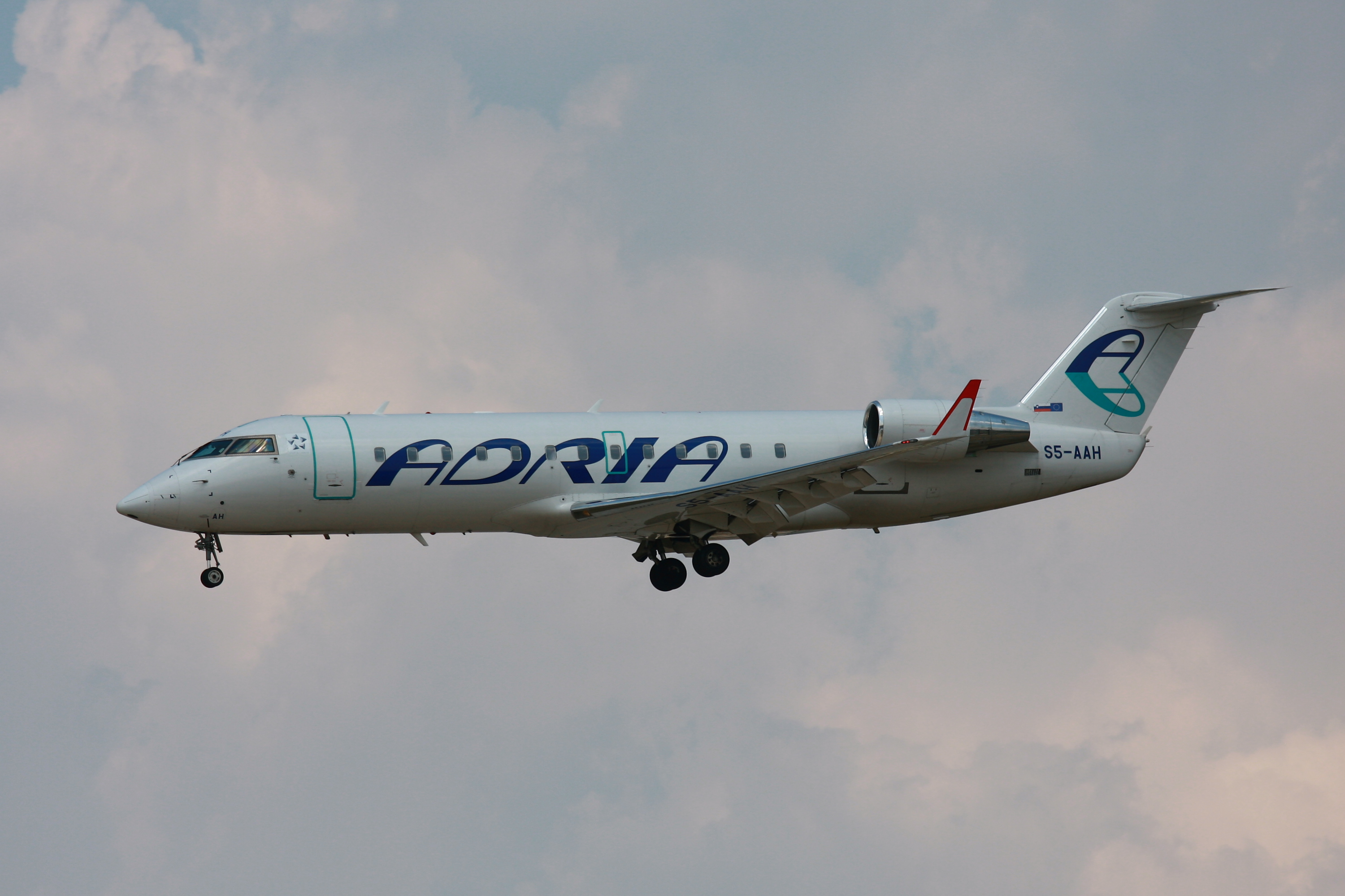 A CRJ 100 of Adria Airways landing at Frankfurt Airport